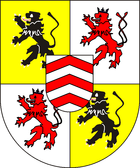 coat of arms of Jülich-Berg (1360-1511); 1,4: duchy of Jülich; 2,3: duchy of Berg; heart: county of Ravensnberg